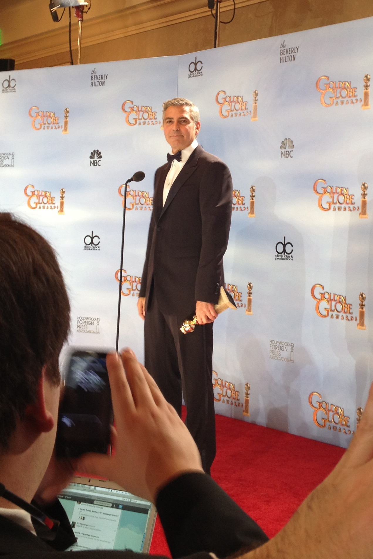 69th Annual Golden Globes Awards.